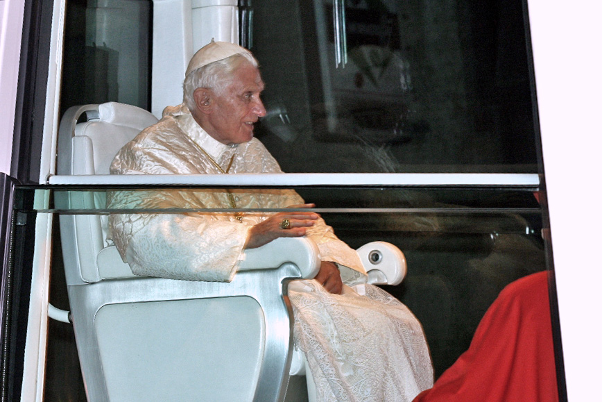 Pope Benedict XVI during his visit in Croatia in 2011, wearing the white Paschal mozetta (without fur trim).